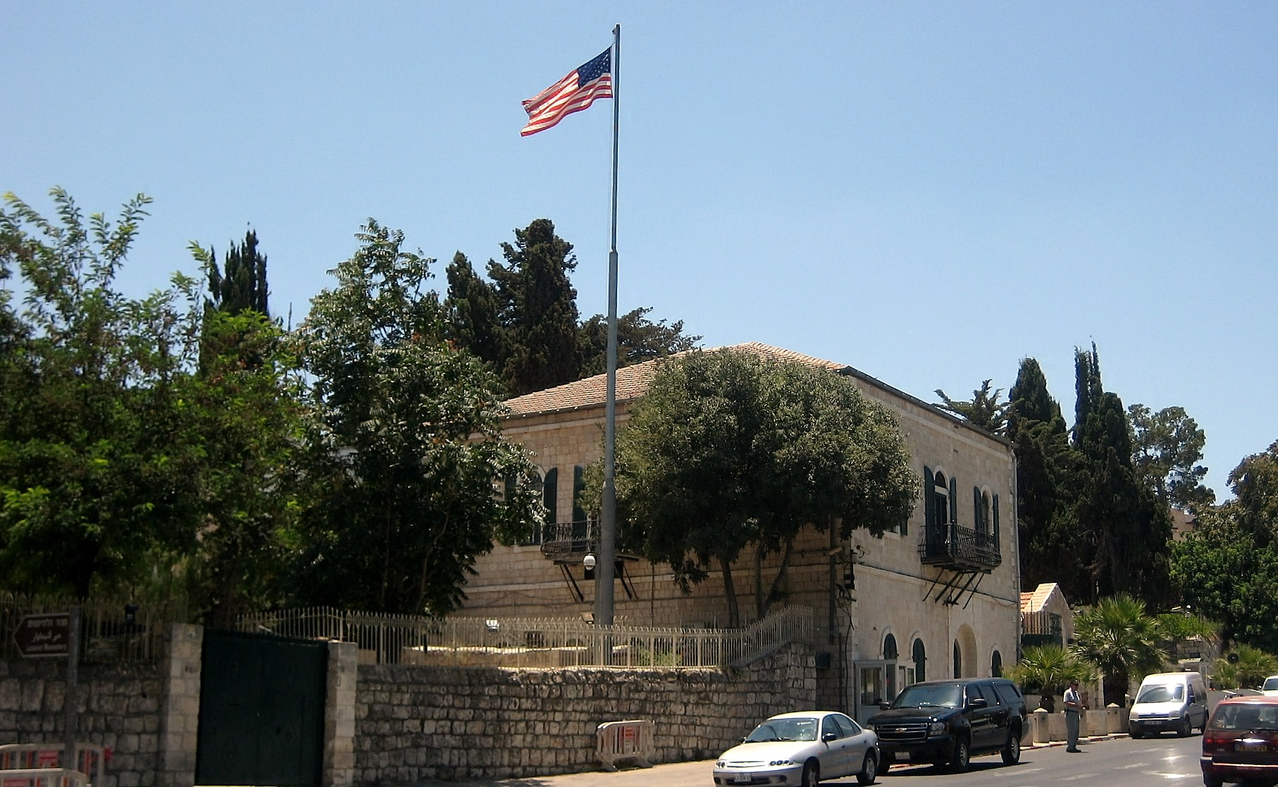 US Embassy in Jerusalem, 18 Agron Road.